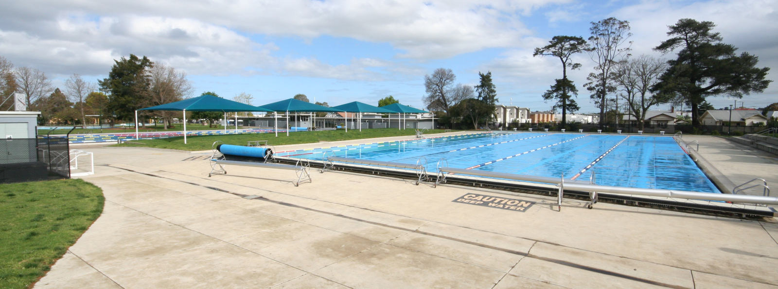 Kardinia Pool - Geelong, Victoria, Australia